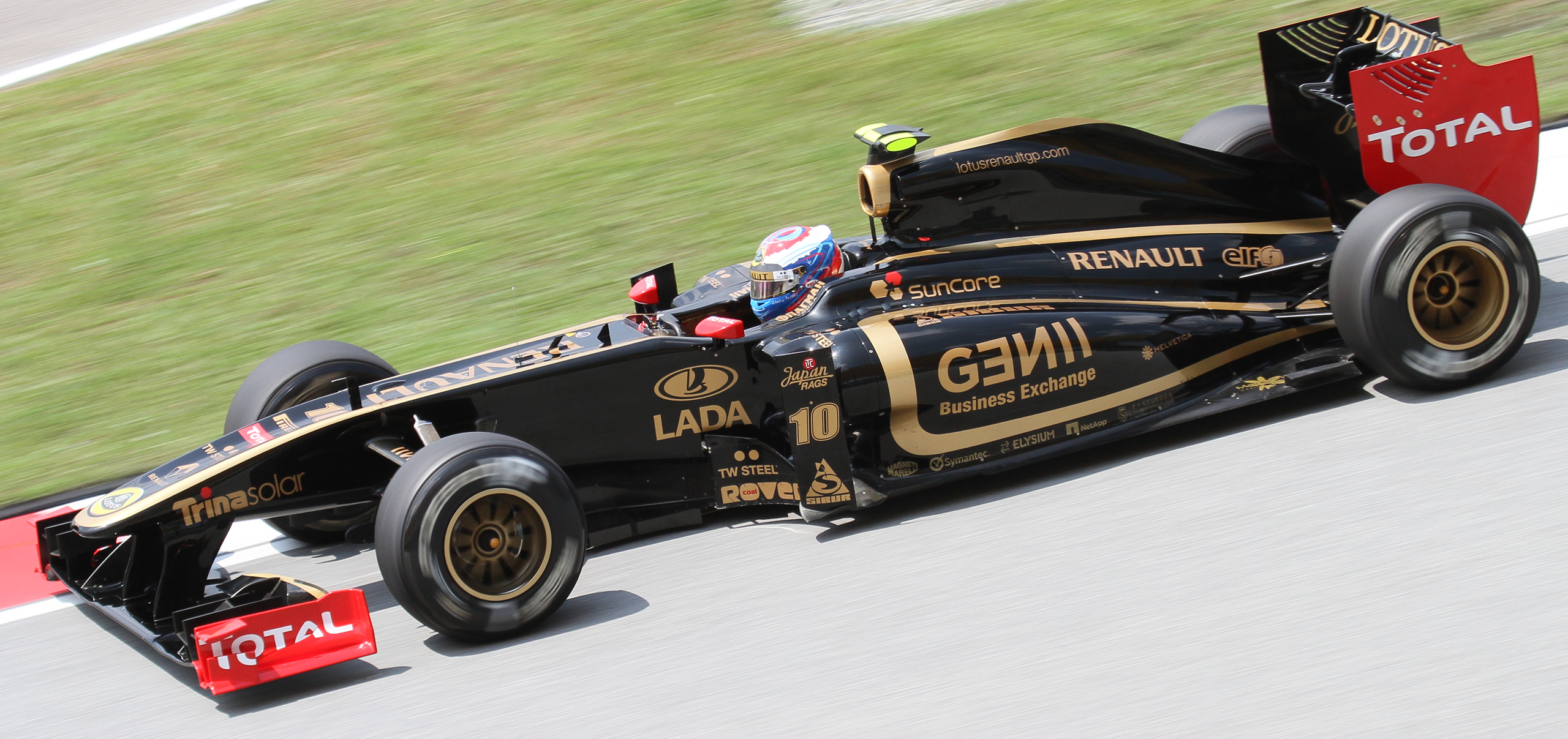 Formula One 2011 Rd.2 Malaysian GP: Vitaly Petrov (Renault) during the second practice session on Friday.